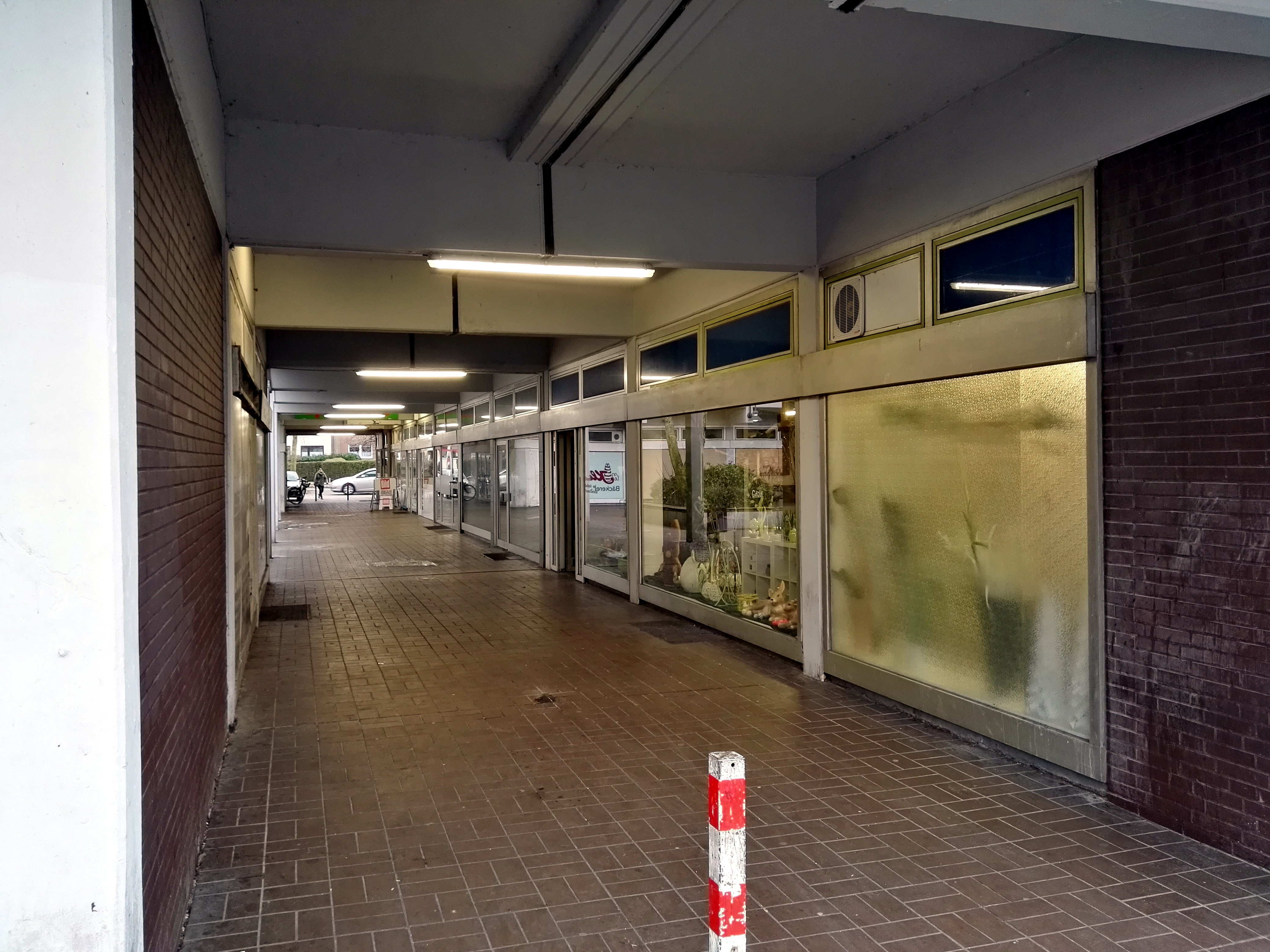 ehemalige Deutsche Bank, Gladbeck Rentfort